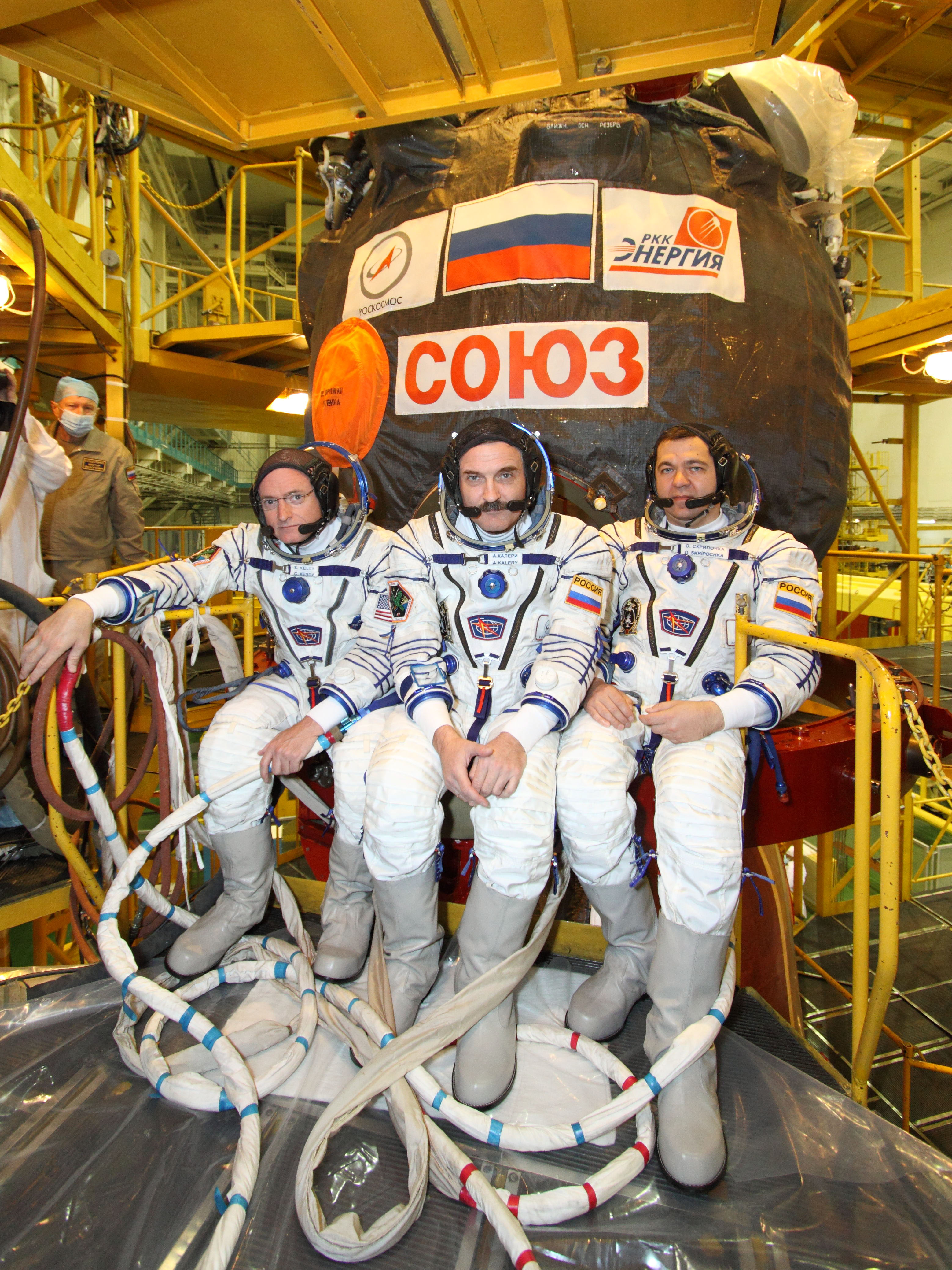 At the Baikonur Cosmodrome in Kazakhstan, NASA astronaut Scott Kelly; along with Russian cosmonauts Alexander Kaleri and Oleg Skripochka (left to right), all Expedition 25 flight engineers, take a moment to pose for pictures in front of their Soyuz TMA-01M spacecraft during a training and Soyuz inspection exercise Sept. 26, 2010. The three are preparing for launch Oct. 8 (Kazakhstan time) to the International Space Station.